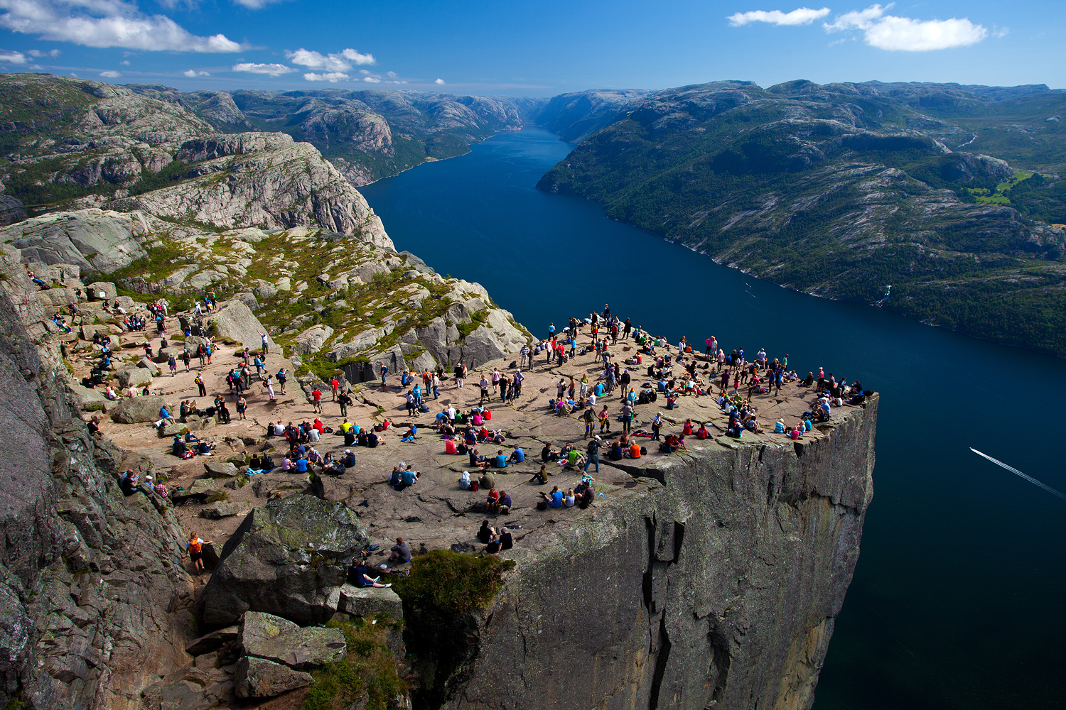 The iconic Pulpit Rock rises 600 metres above the Lysefjord in Norway.